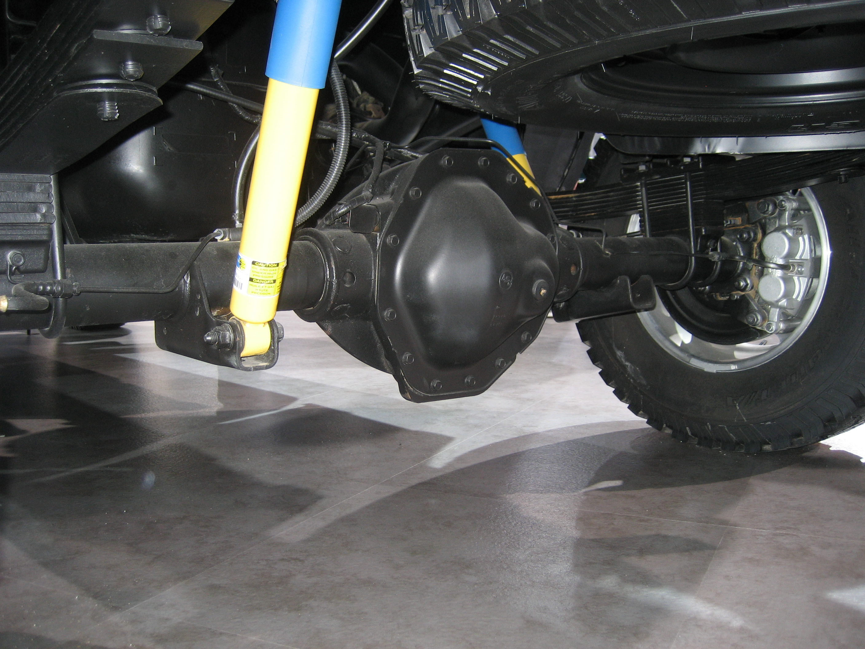 2011 Dodge Ram Power Wagon 10.5 AAM with Locker.